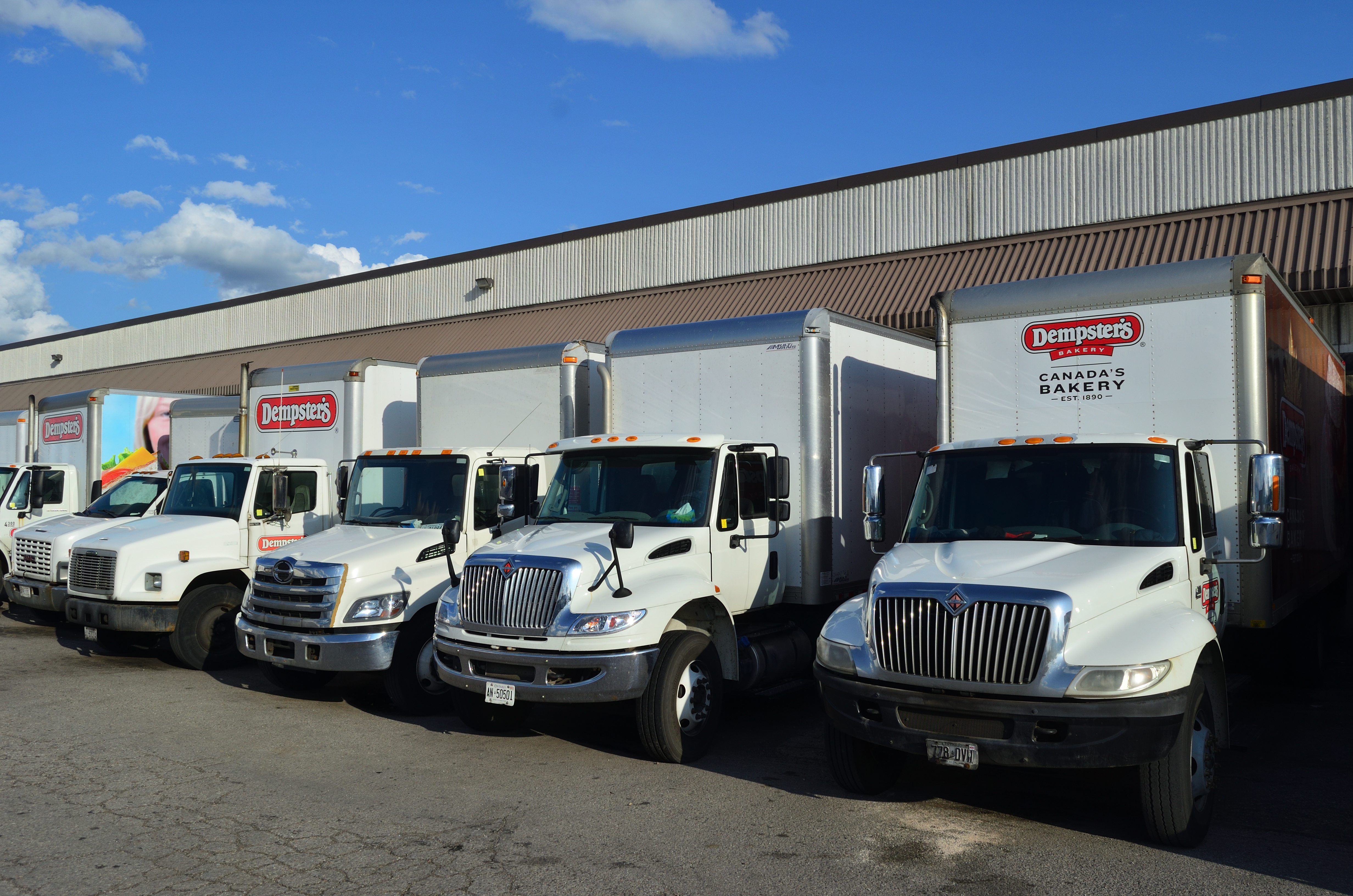 Dempster's Bread - Address: 45 Bodrington Crt, Markham, ON L6G 1C1